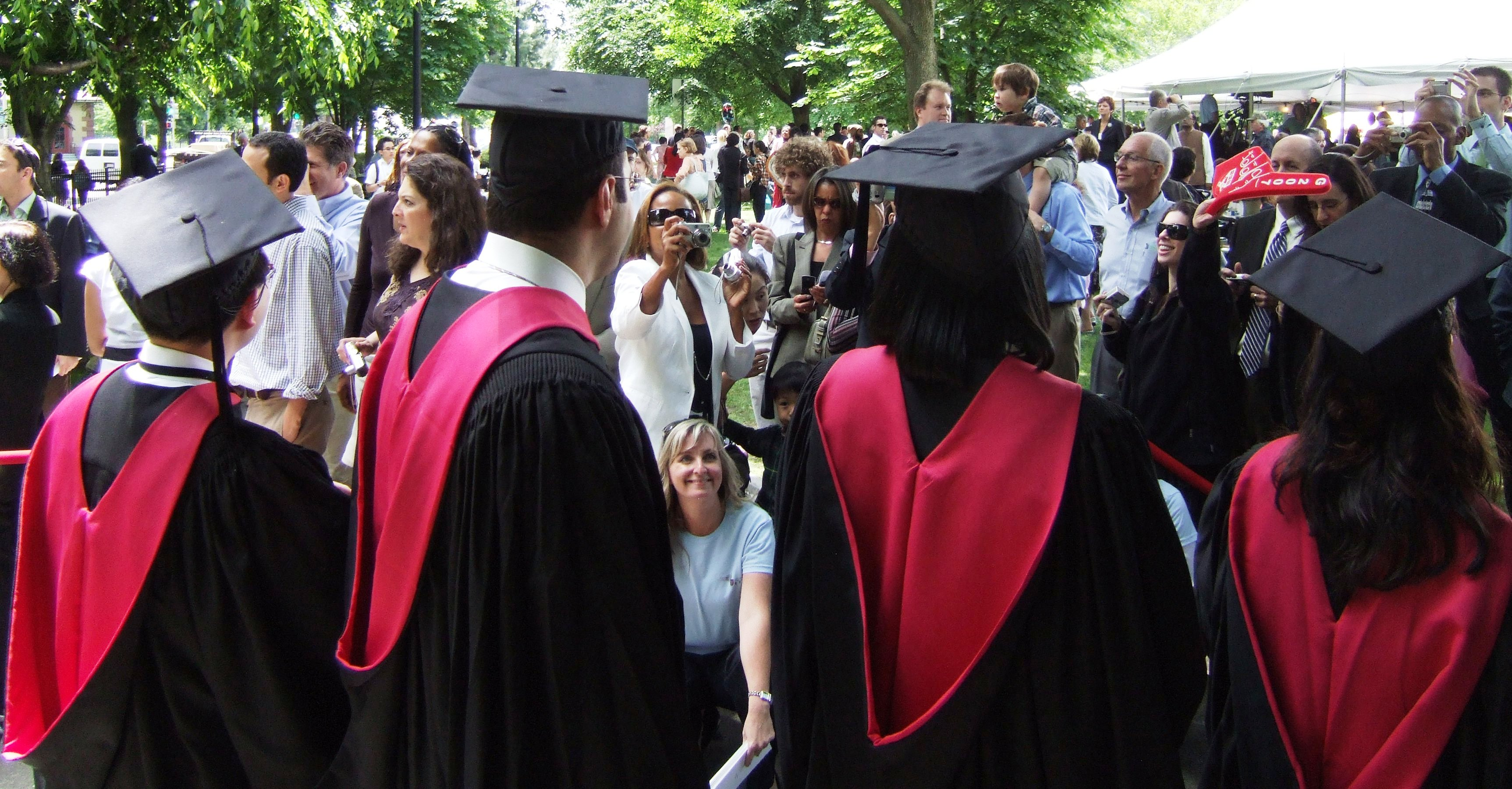 Four graduate of the Kennedy School of Government at Harvard University wearing academic dress. Visible is the hood worn by those awarded a master's degree in public administration with a focus on international development.